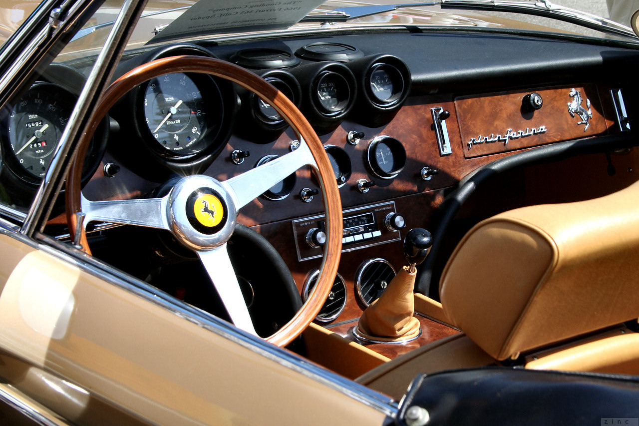 Beverly Hills Concours d'Elegance 2007